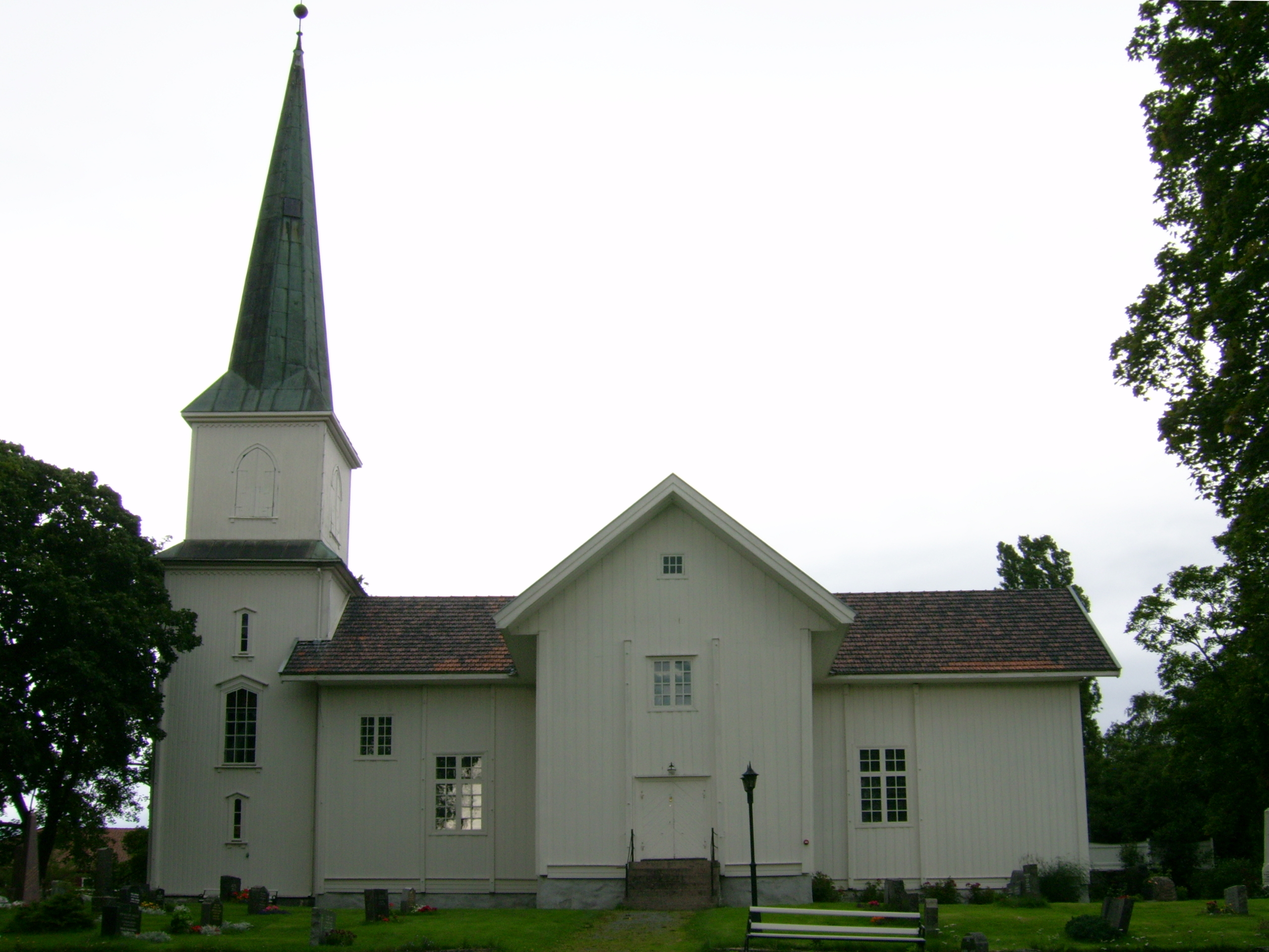 Nes church, Gran, Norway, perspective corrected by Haros